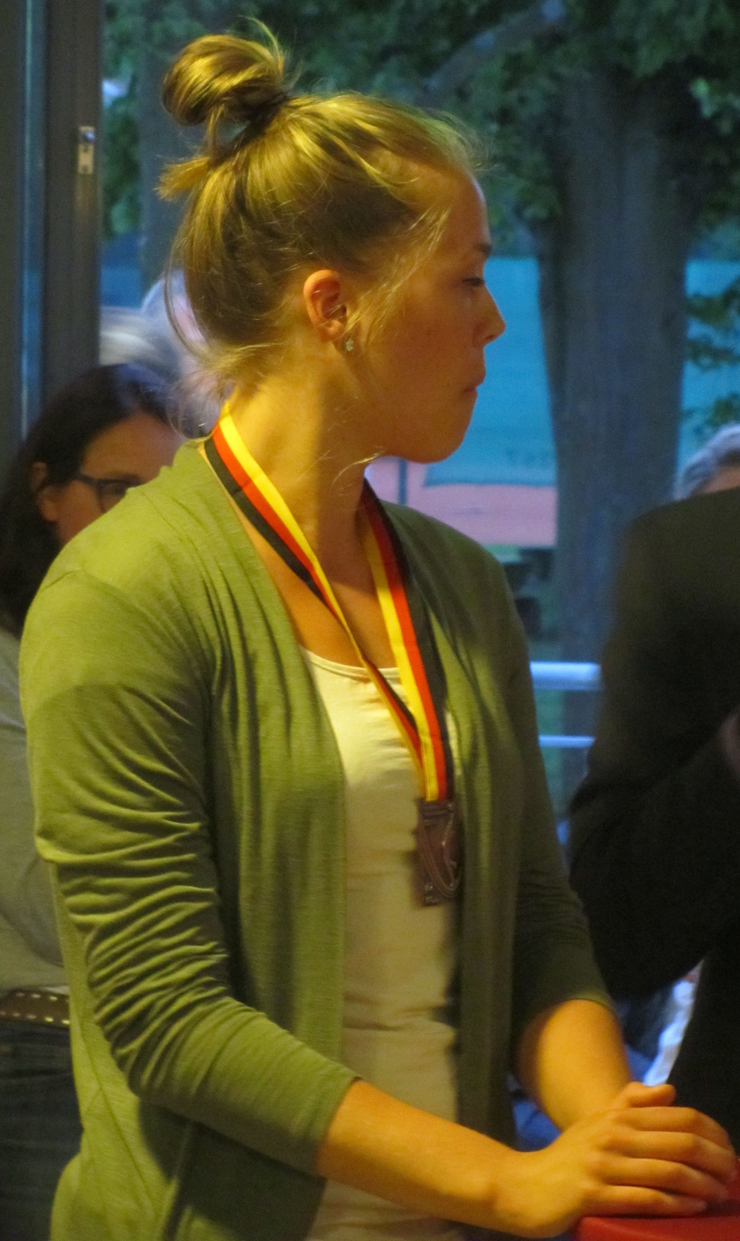 the Dutch volleyball player Femke Stoltenborg, winner of the Bronze medal in German Bundesliga 2014 with Ladies in Black Aachen